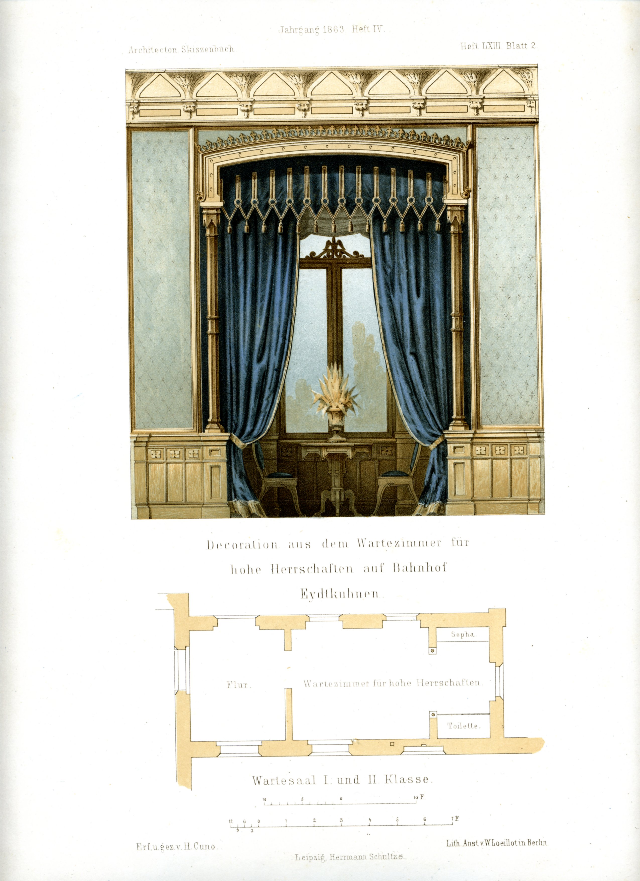 Decoration of the royal waiting room in Chernyshevskoye (Eydtkuhnen) railway station